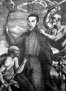 Engraving depicting the murder of Padre San Vitores by Mata'pang and Hurao in 1672 in Guam. Francisco Garcia, Istoria della conversione alla nostra Santaa Fede dell'Isole Mariane, Naples, 1686, pl. XV Category:Images of Guam